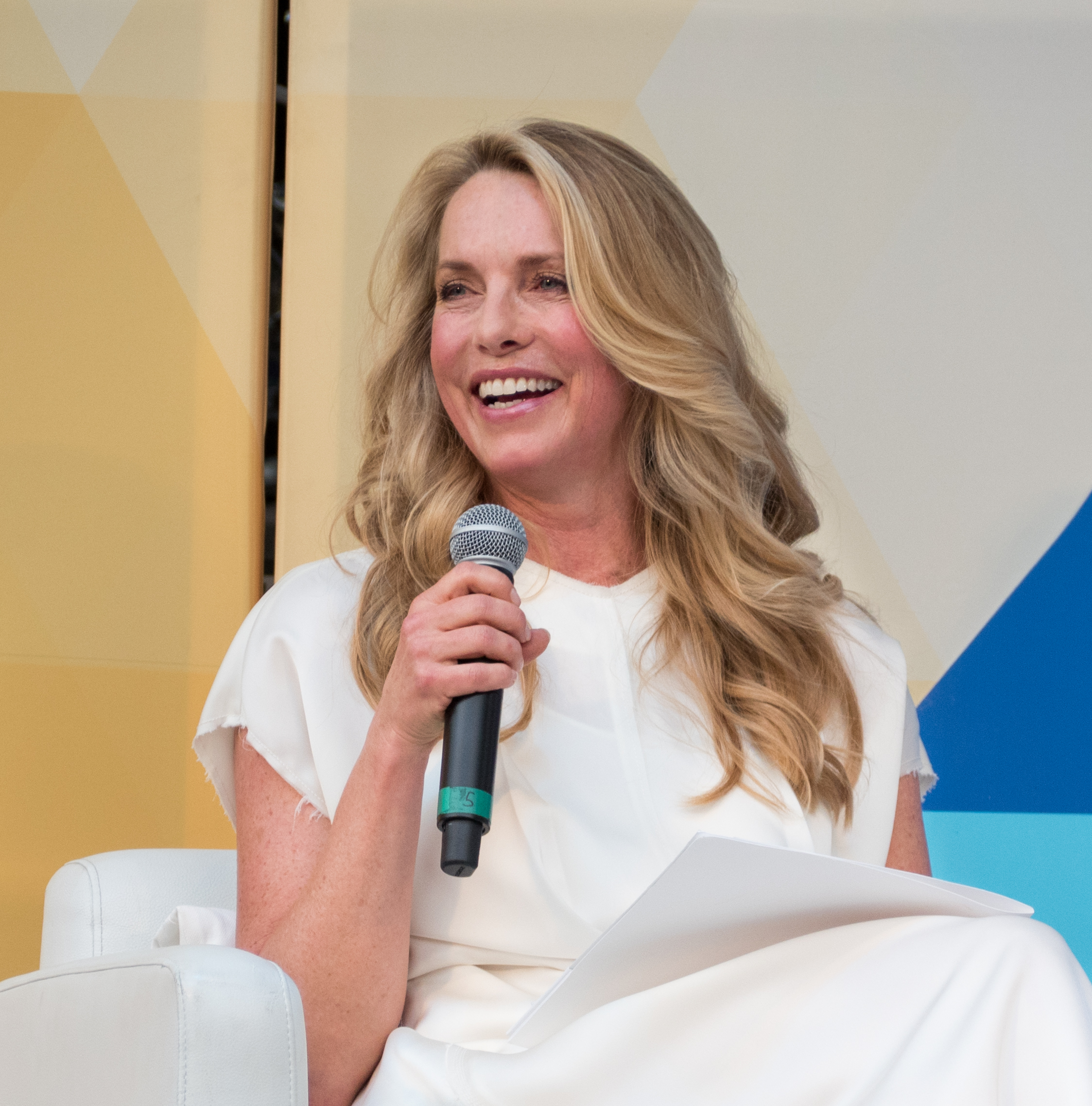 Laurene Powell Jobs at Ozy Fest